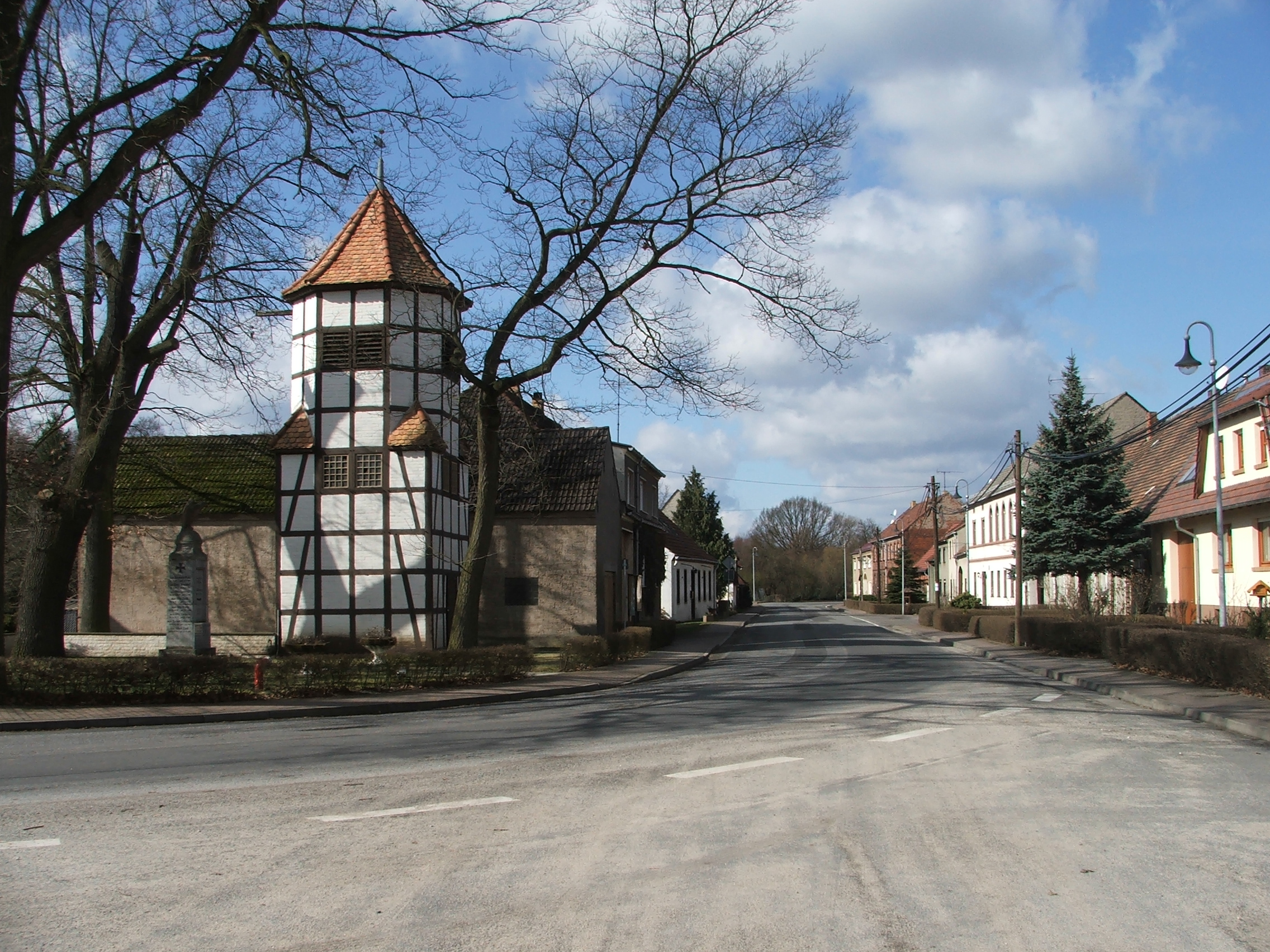 Frankenhain near Schlieben